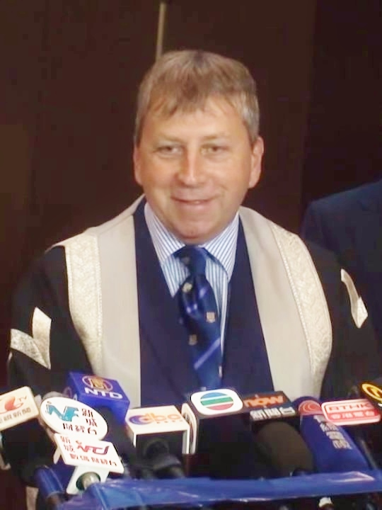 Professor Peter Mathieson, vice-chancellor and president of the University of Hong Kong